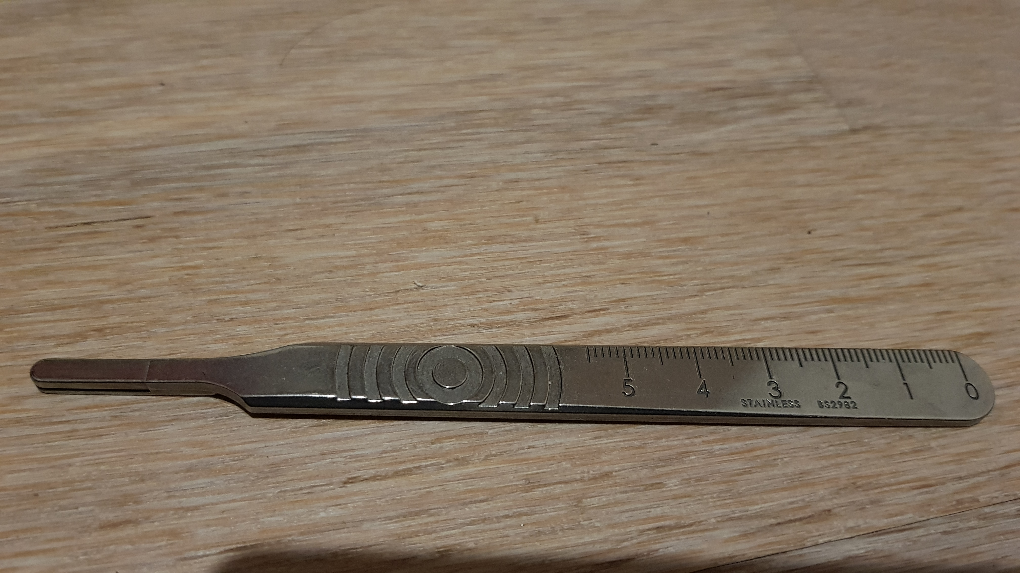 ruler